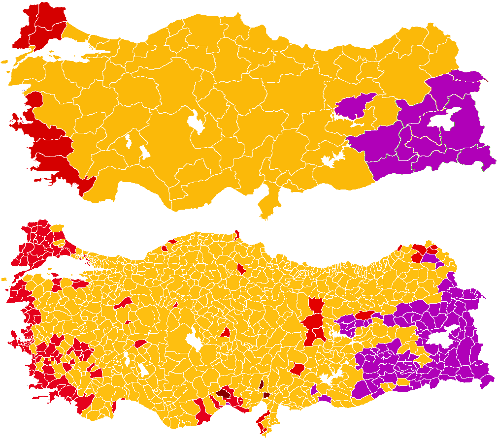 Results of the November 2015 general election by Province